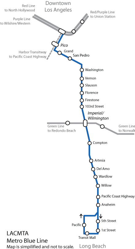 Map of the Blue Line in Los Angeles.